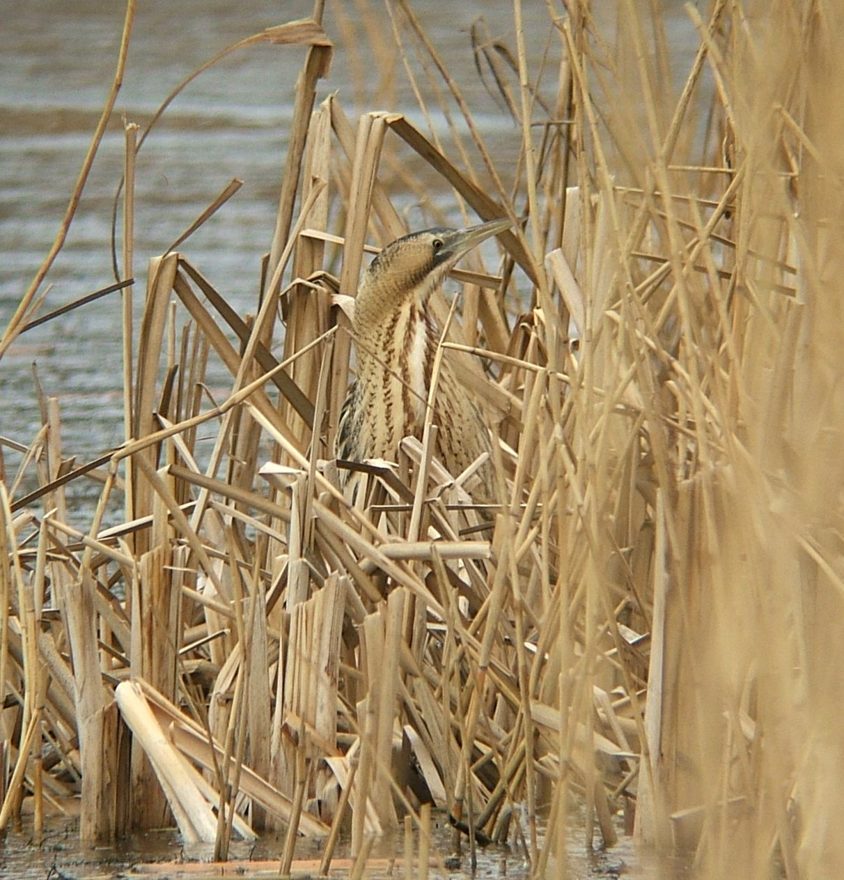 Great Bittern Botaurus stellaris. Gosforth Park, Northumberland, UK.